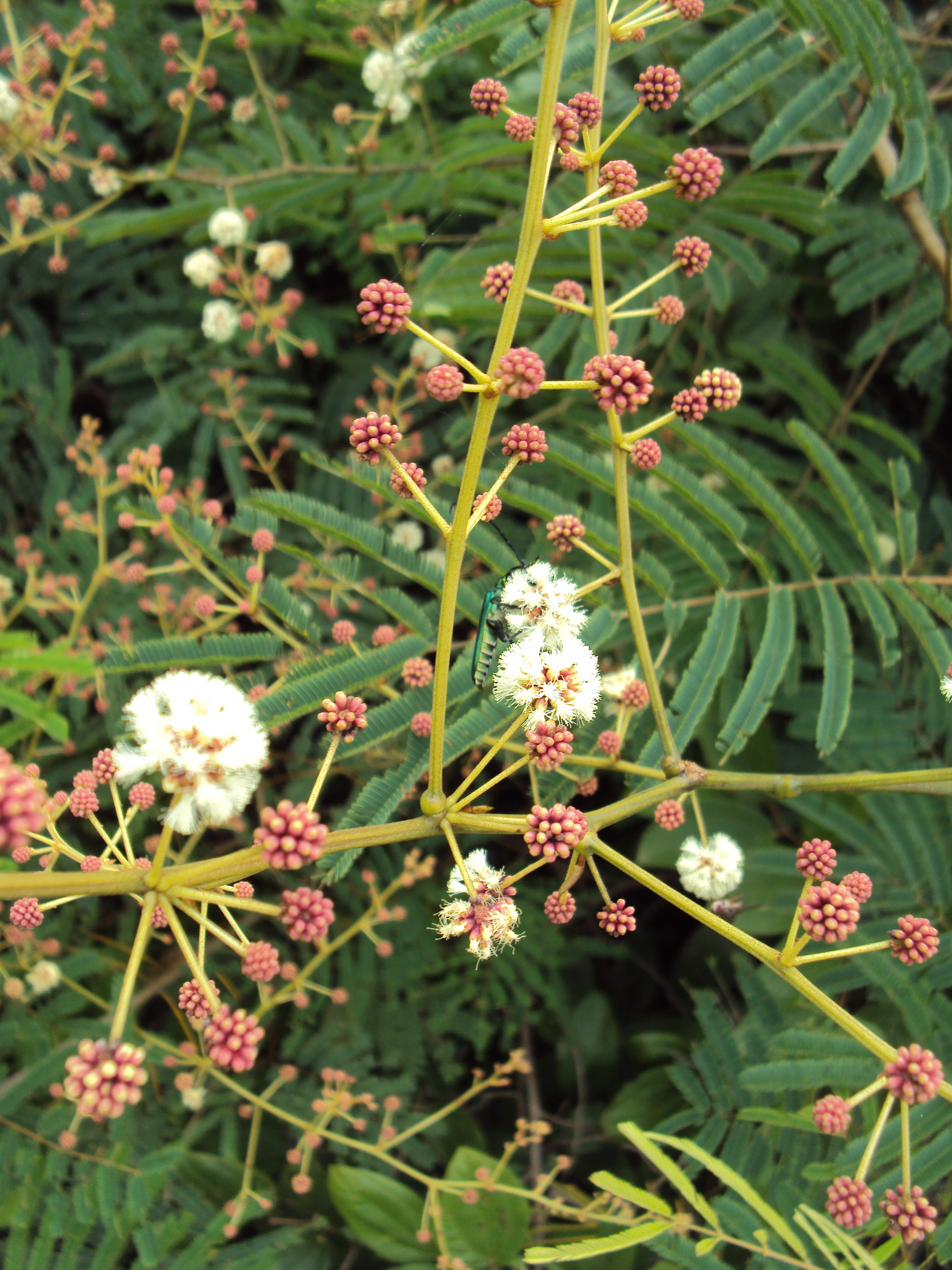 Acacia intsia